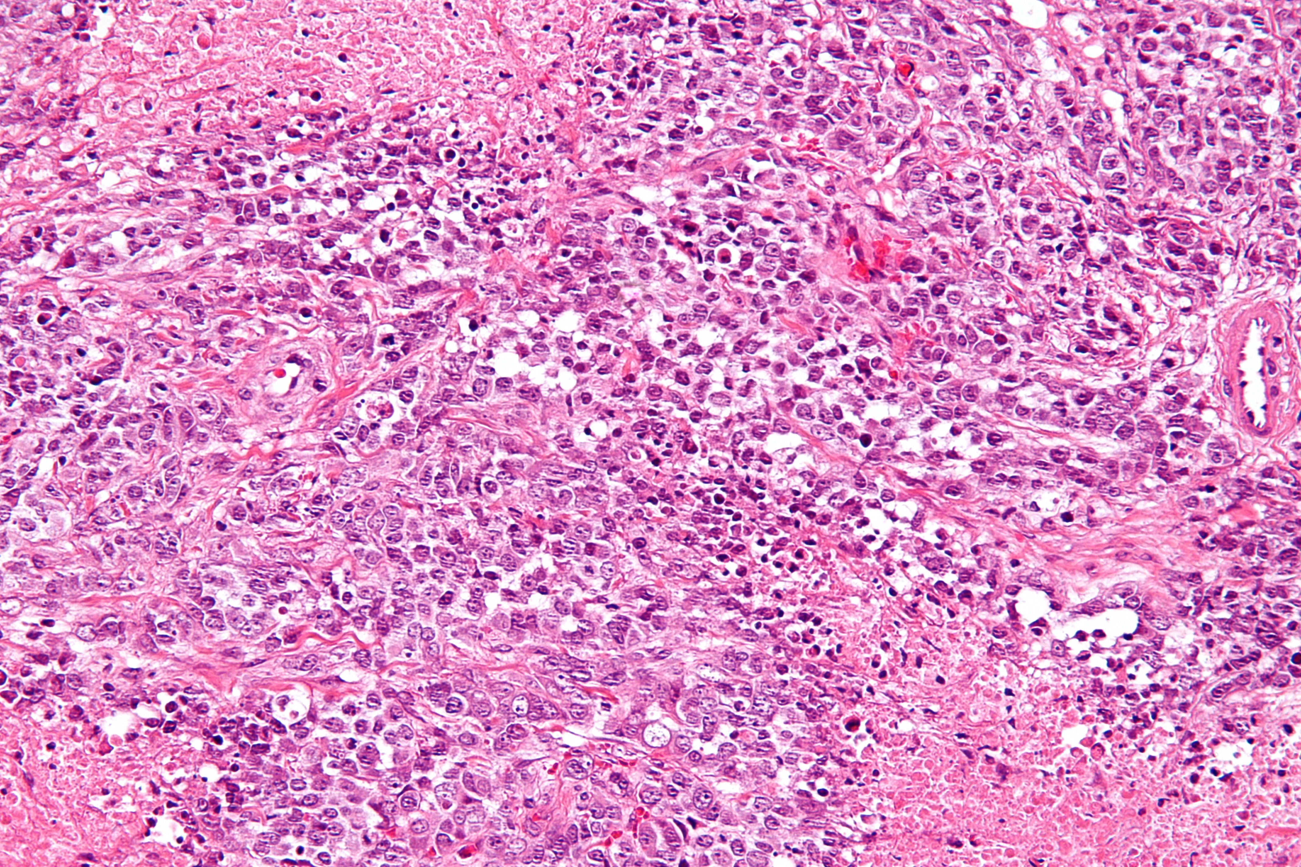 High magnification micrograph of small cell carcinoma of the ovary hypercalcemic type, also known as ovarian small cell carcinoma of the hypercalcemic type (abbreviated OSSCHT). H&E stain. There is also an ovarian small cell carcinoma of the pulmonary type. OSSCHT stains with WT-1 and is negative for TTF-1 and HPV.[1] Related images Low mag. Intermed. mag. High mag. Very high mag. References ↑ (Sep 2007). "Biomarker-assisted diagnosis of ovarian, cervical and pulmonary small cell carcinomas: the role of TTF-1, WT-1 and HPV analysis.". Histopathology 51 (3): 305-12.